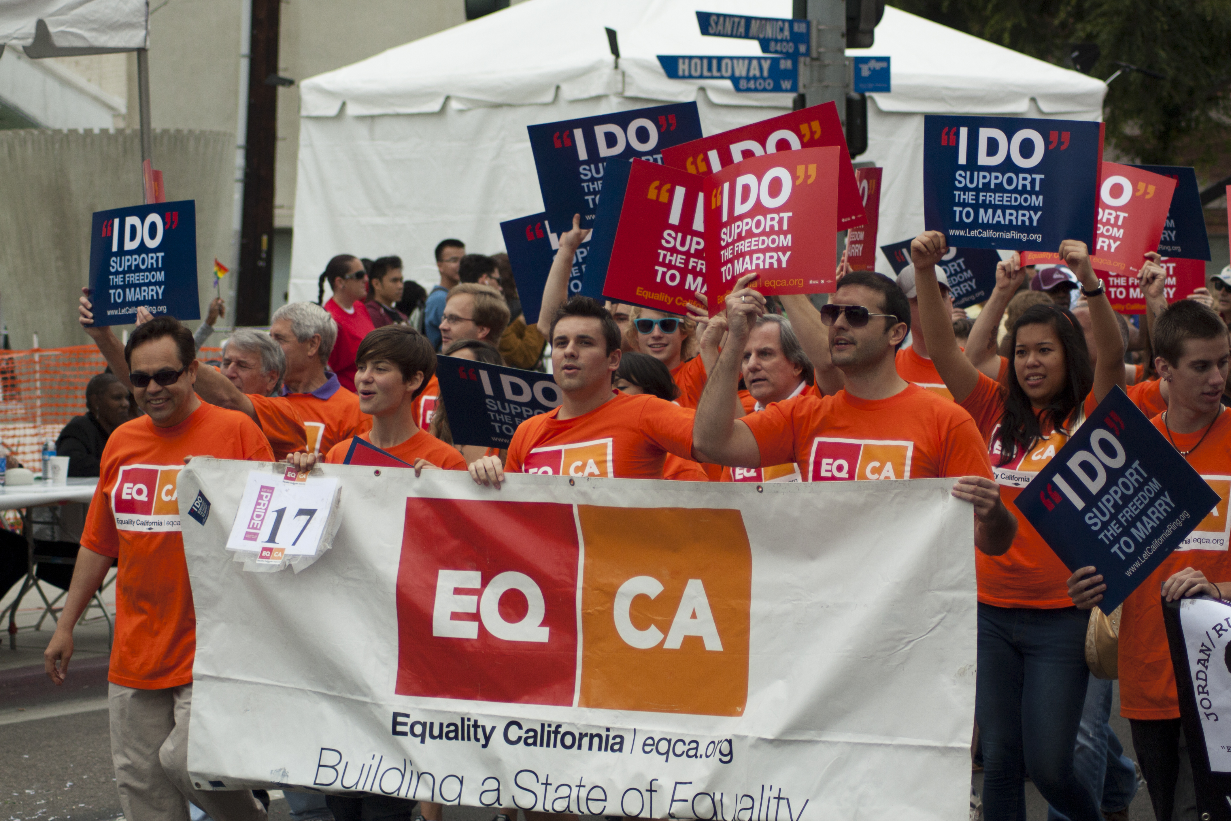 Equality California at Los Angeles Pride 2011 (June 12).